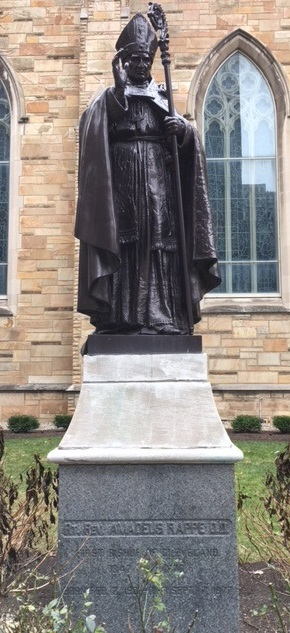 Louis Amadeus Rappe statue on the grounds of St. John's Cathedral, Cleveland, Ohio